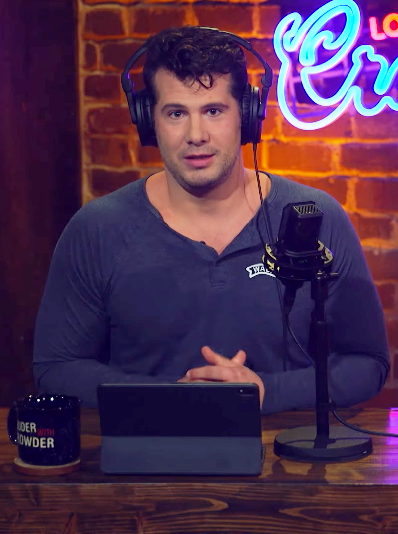 Steven Crowder in 2019, talking about Greta Thunberg